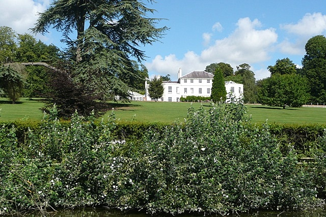 Shiplake House The grounds of the house run down to the river, with a haha hiding the towpath which is on this bank from sight of the house. However it can be seen from the river, and thus the river from it. In Victorian times it was owned by Joseph Phillimore, LLD, chancellor of the diocese of Oxford and regius professor of civil law in the university of Oxford. It continues to be a private residence. The ait in the river here is called Phillimore's Island.